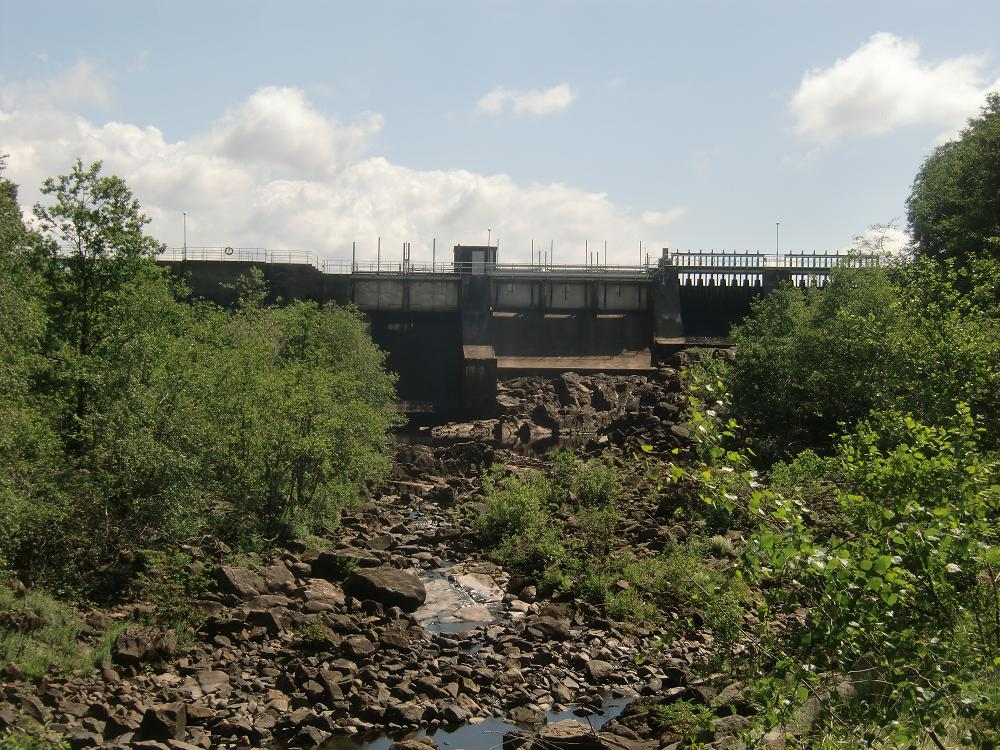 The dam as seen from the drained rapids below the bridge